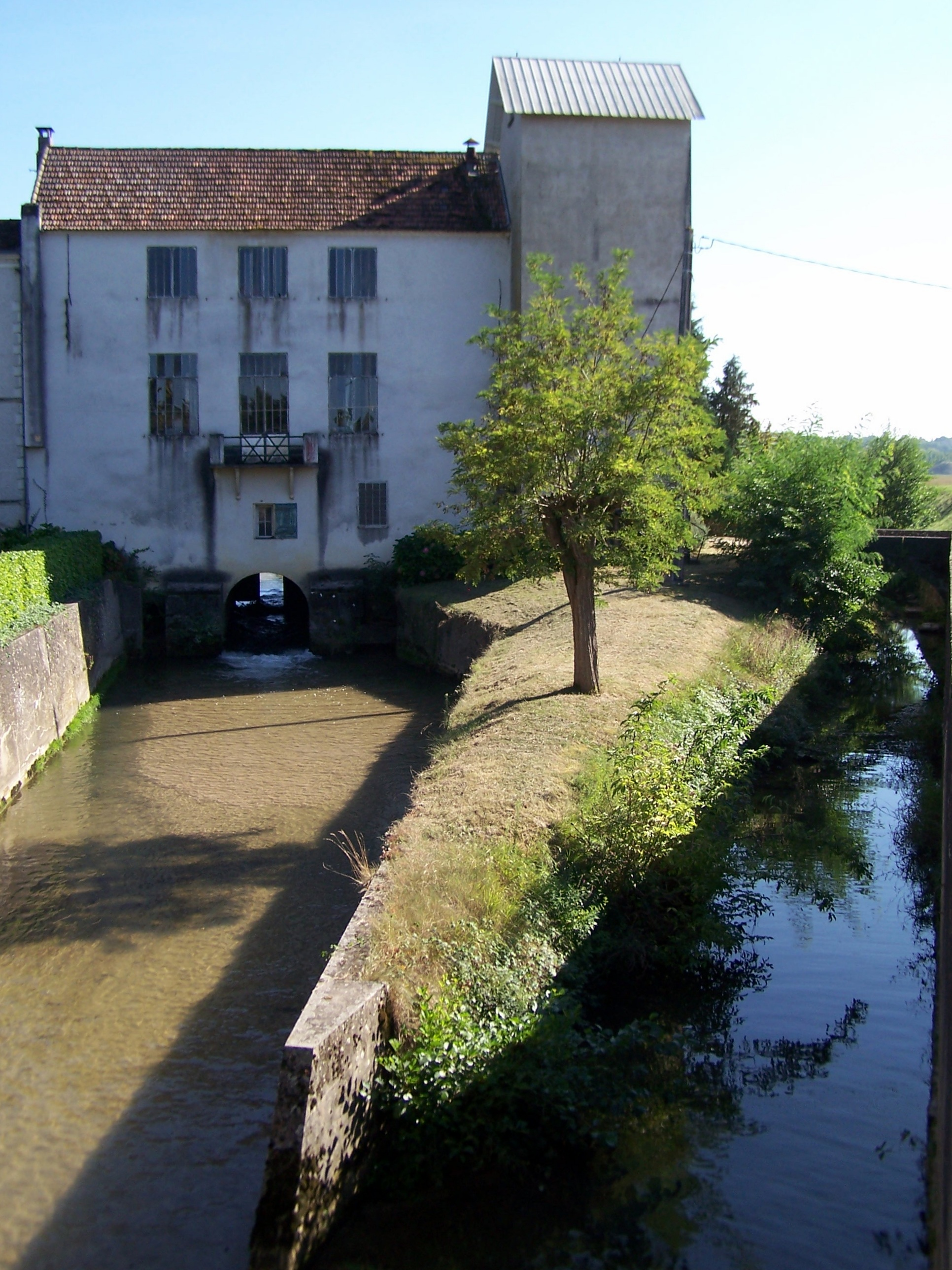 Mill of the Bridge in Gaujac, (Lot-et-Garonne, France)